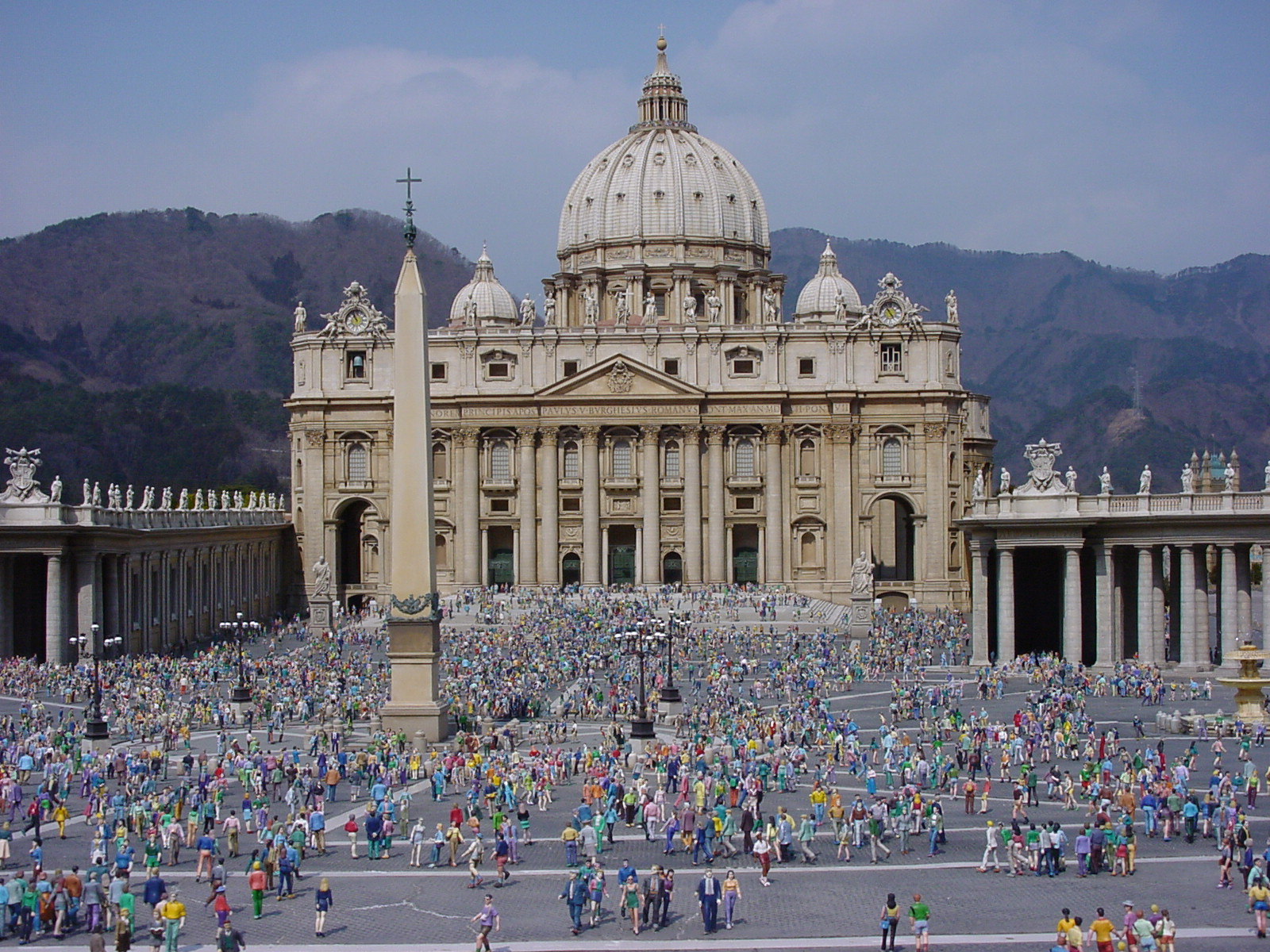 1:25 scale miniature St Peter's Basilica at Tobu World Square